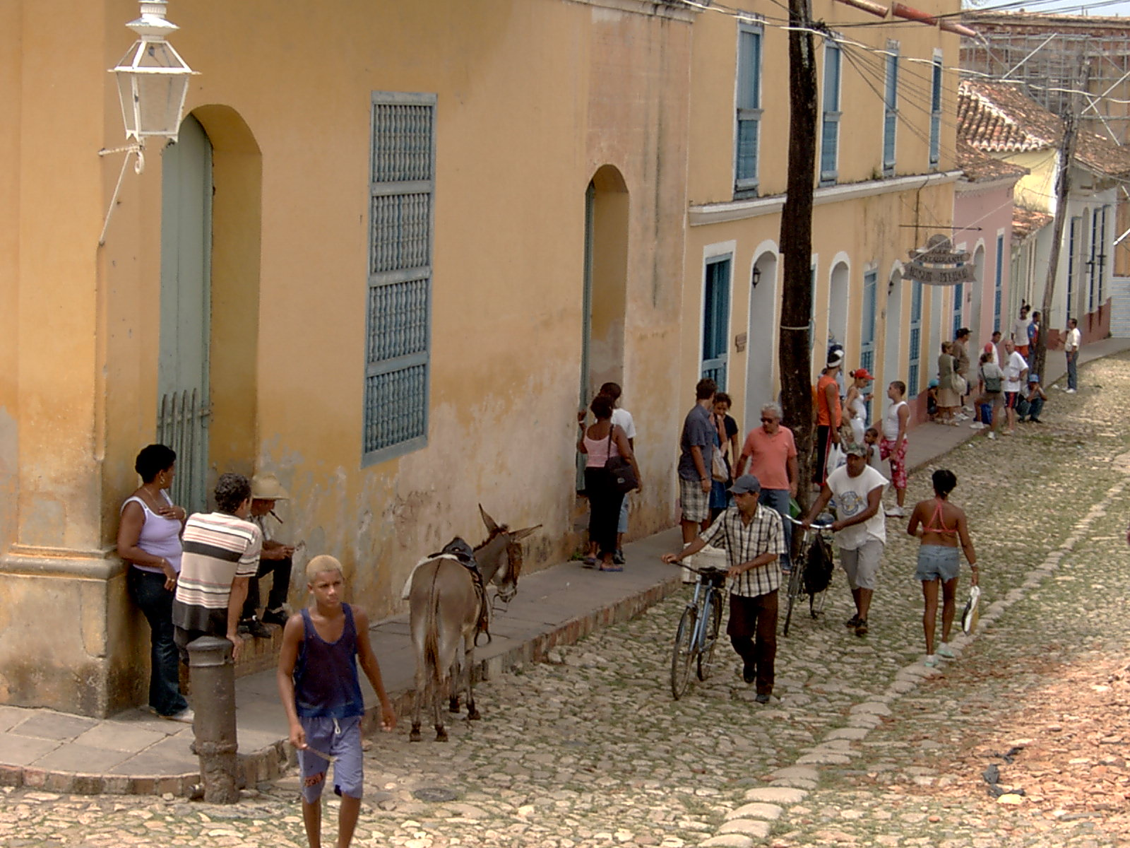 Street in Trinidad, with lot of passers-by.